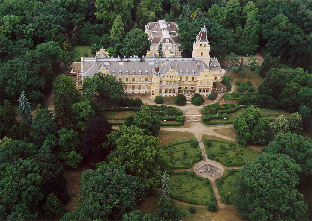 Palace - Szabadkígyós - Hungary - Europe (Wenckheim Mansion)